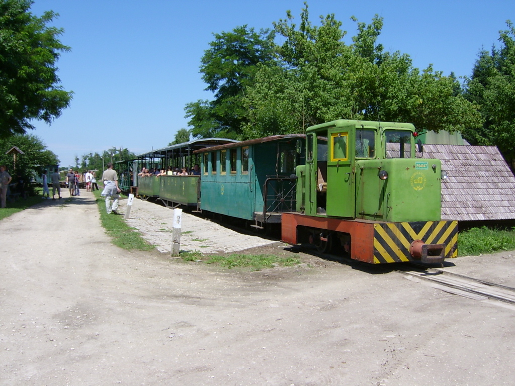 Train with C-50 typ. lokomotiv in the Forest Railway of Mesztegnyő, Hungary.